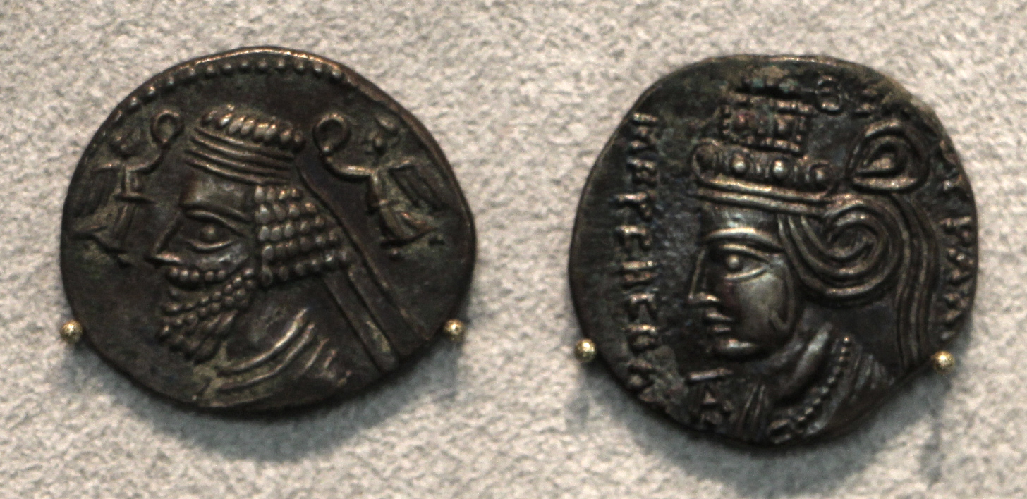 Ancient Greek coins in the Altes Museum Berlin